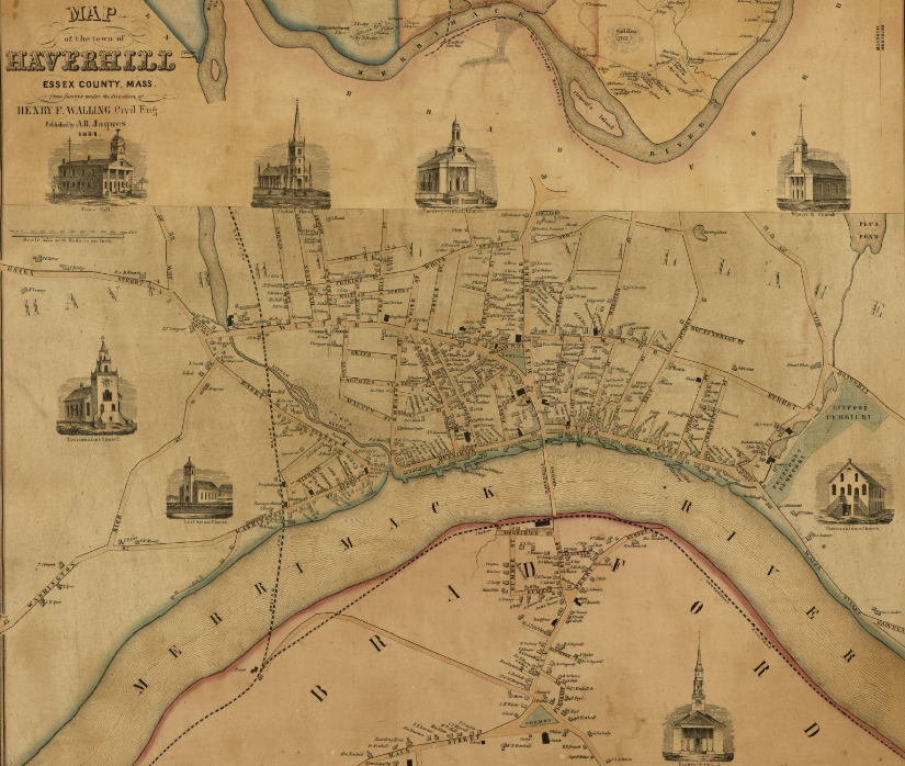 Map of the town of Haverhill, Essex County, Mass. Author: Walling, Henry Francis Publisher: Jaques, A. B. Date: 1851 Location: Haverhill (Mass.) Dimension: 88 x 74 cm. Scale: [ca. 1:19,900]